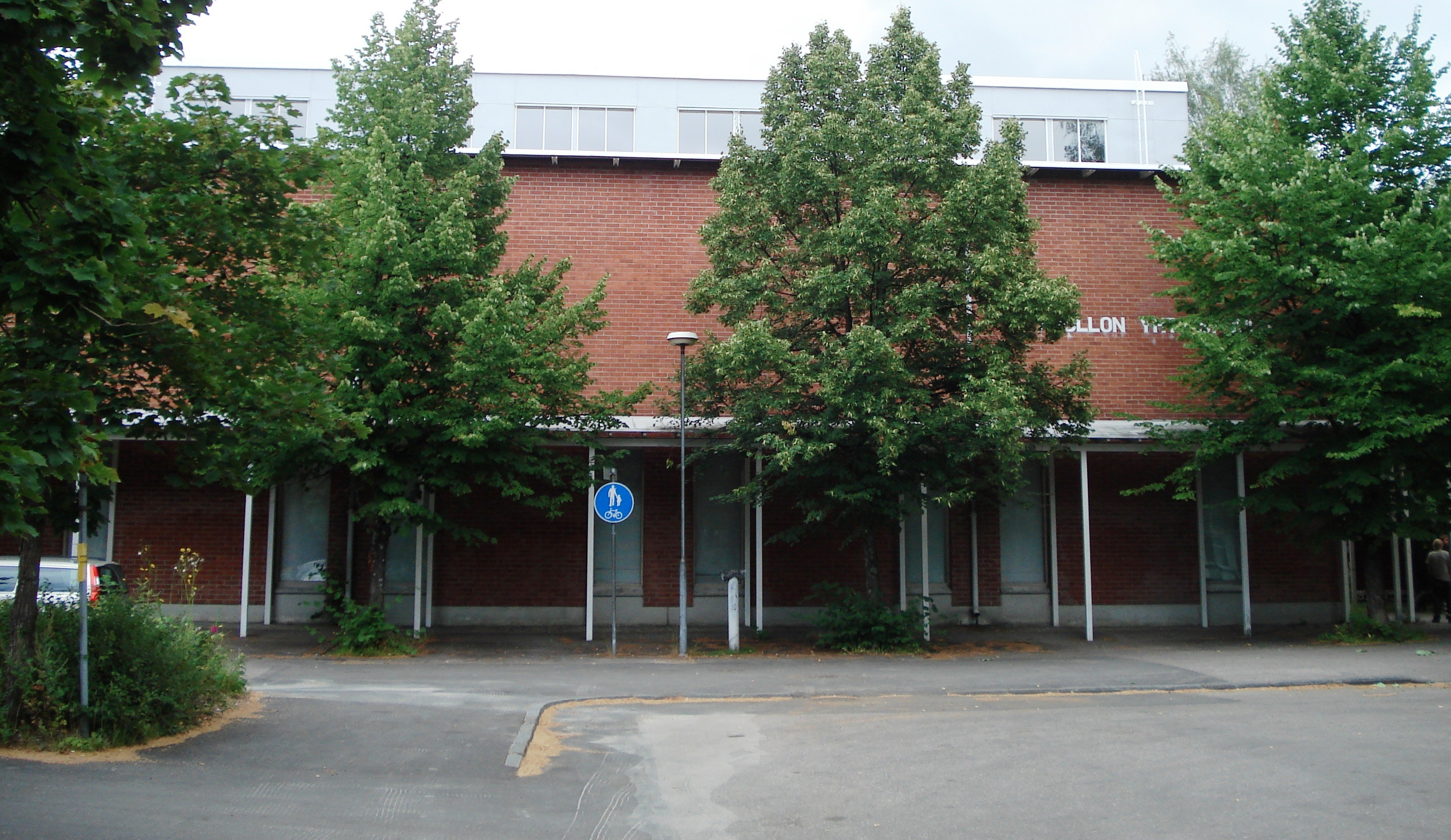 Apollo school in Helsinki, Finland – August 2012